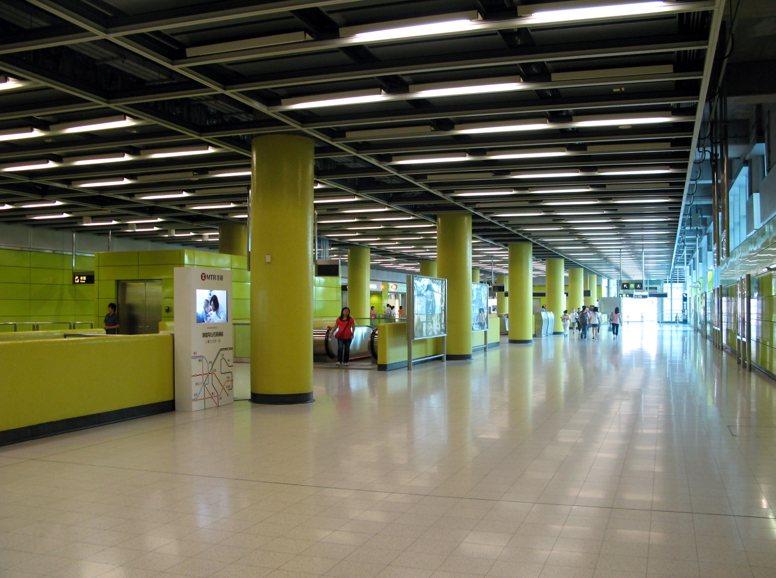 MTR Tiu Keng Leng station concourse